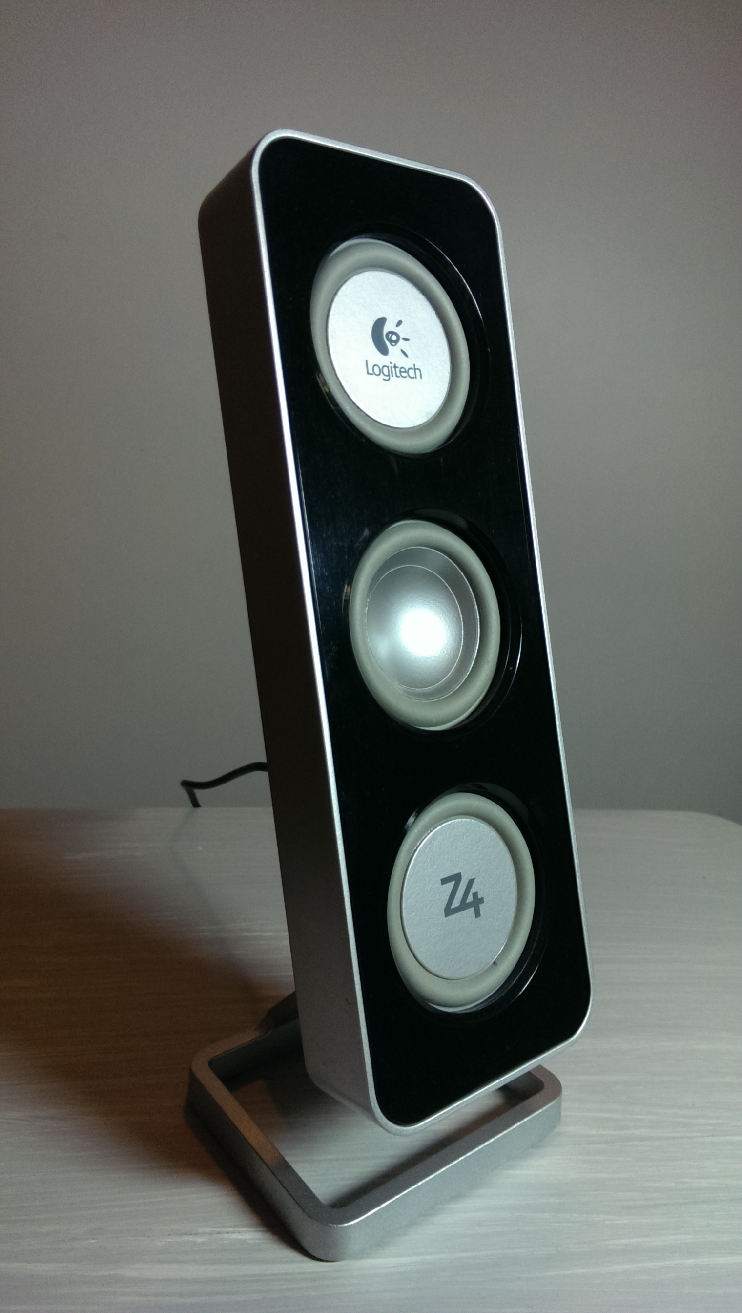 Logitech Z4 satellite speaker.